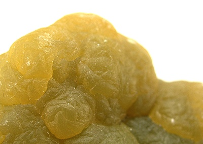 Cadmium, Smithsonite Locality: Dam Project, near Hezhou City, Guangxi Province, China Size: small cabinet, 6.9 x 6 x 2.4 cm Cadmium Smithsonite These remarkable smithsonites are the best I have seen over 10- years of watching a piece or two per year surface on the market, presumably stashed years ago and now coming to light as a small lot I picked up just before Tucson. I am NOT aware of recent mining for these, nor have I ever seen quantity, though I have sold 4 -5 of them in the past decade. This piece is by far and away the best of the lot. It has a quality to it that could compete with the best cadmian-rich material from Arkansas' classic Philadelphia Mine in Rush County, and more crystal structure as you can see - it is not truly botryoidal as might be smithsonite from those other locales.